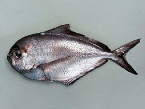 Picture of Brama brama